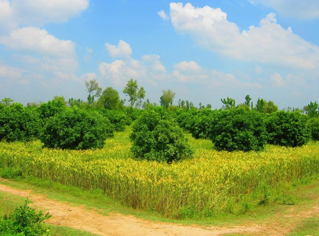 کینو